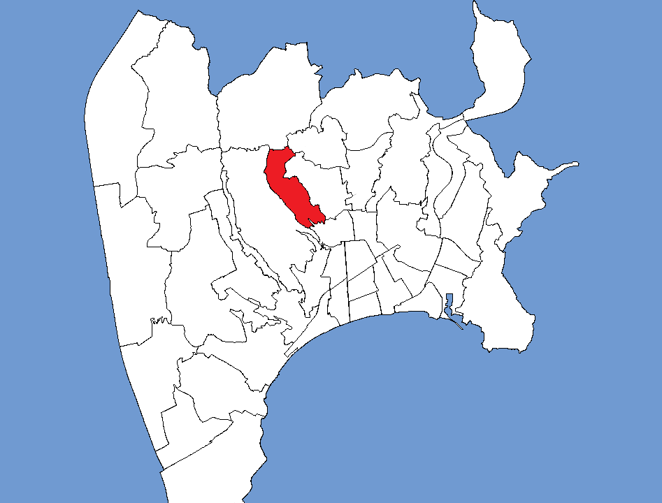 Location of the neighbourhood Pessicart in Nice